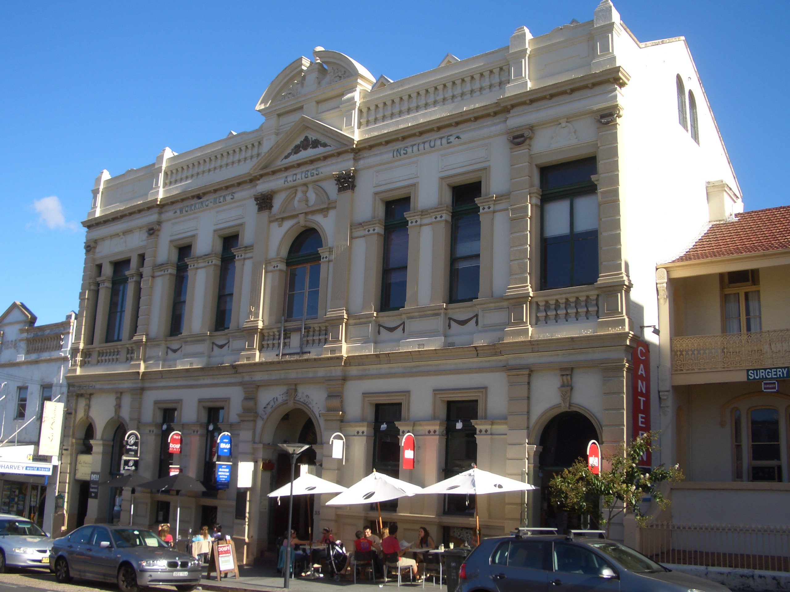 Working Men's Institute, Darling Street, Balmain